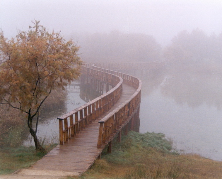 fog in "Las Tablas de Daimel"